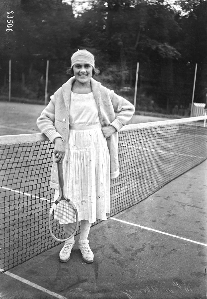 Spanish tennis player Lili de Alvarez at the 1923 Championnat du Monde de Tennis at the parc de Saint-Cloud in Paris.